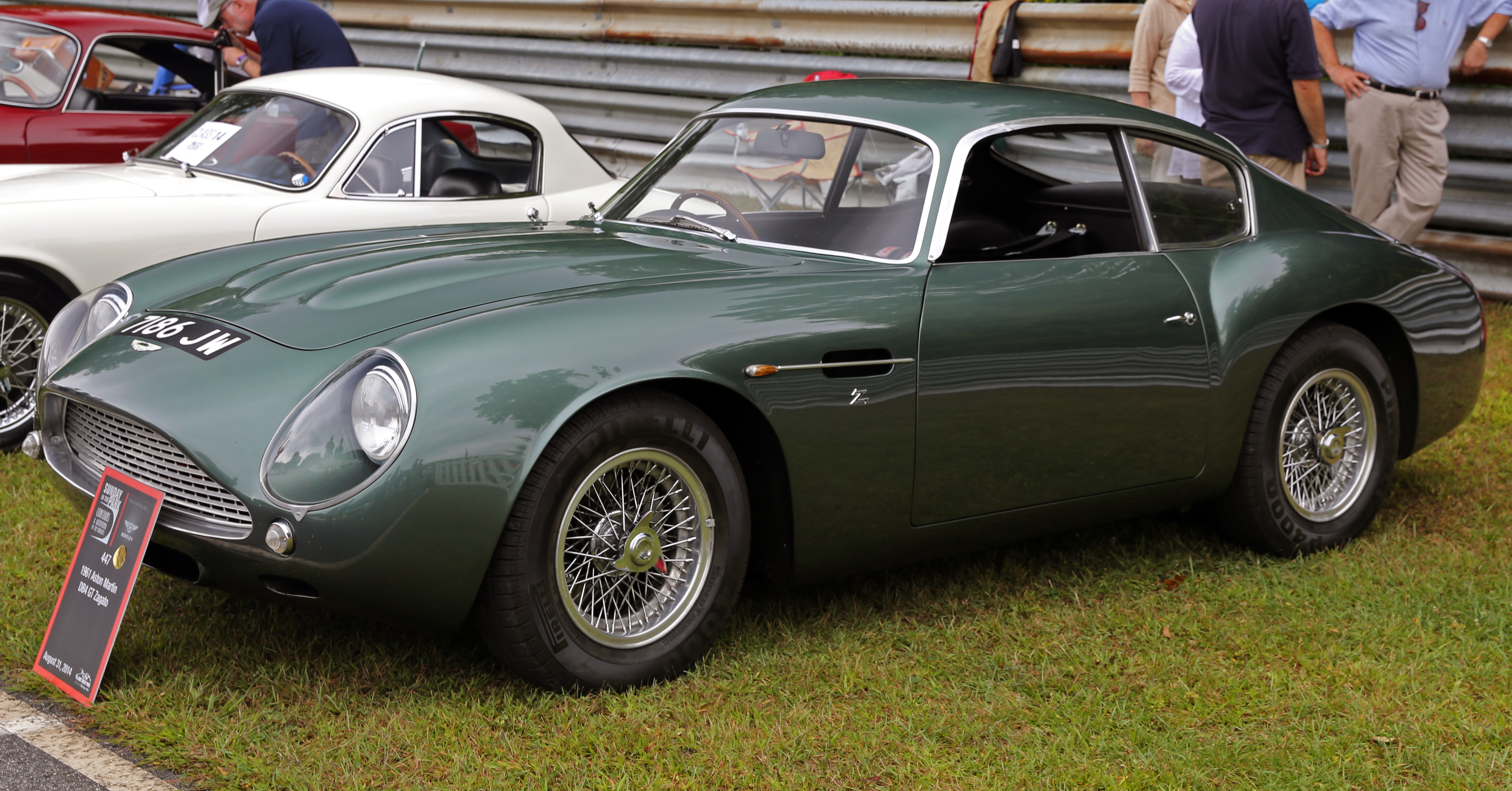 A "1961" Aston Martin DB4 GT Zagato, 7186 JW, belonging to Barney Hallingby at the 2014 Lime Rock Concours d'Élegance. This is one of the four Sanction II cars finished in 1991 using hitherto unassigned chassis numbers. Officially recognized as a 1961 Aston Martin; still sort of iffy in my eyes. Still, considerably better than chopping up a good DB4 to make another replica.